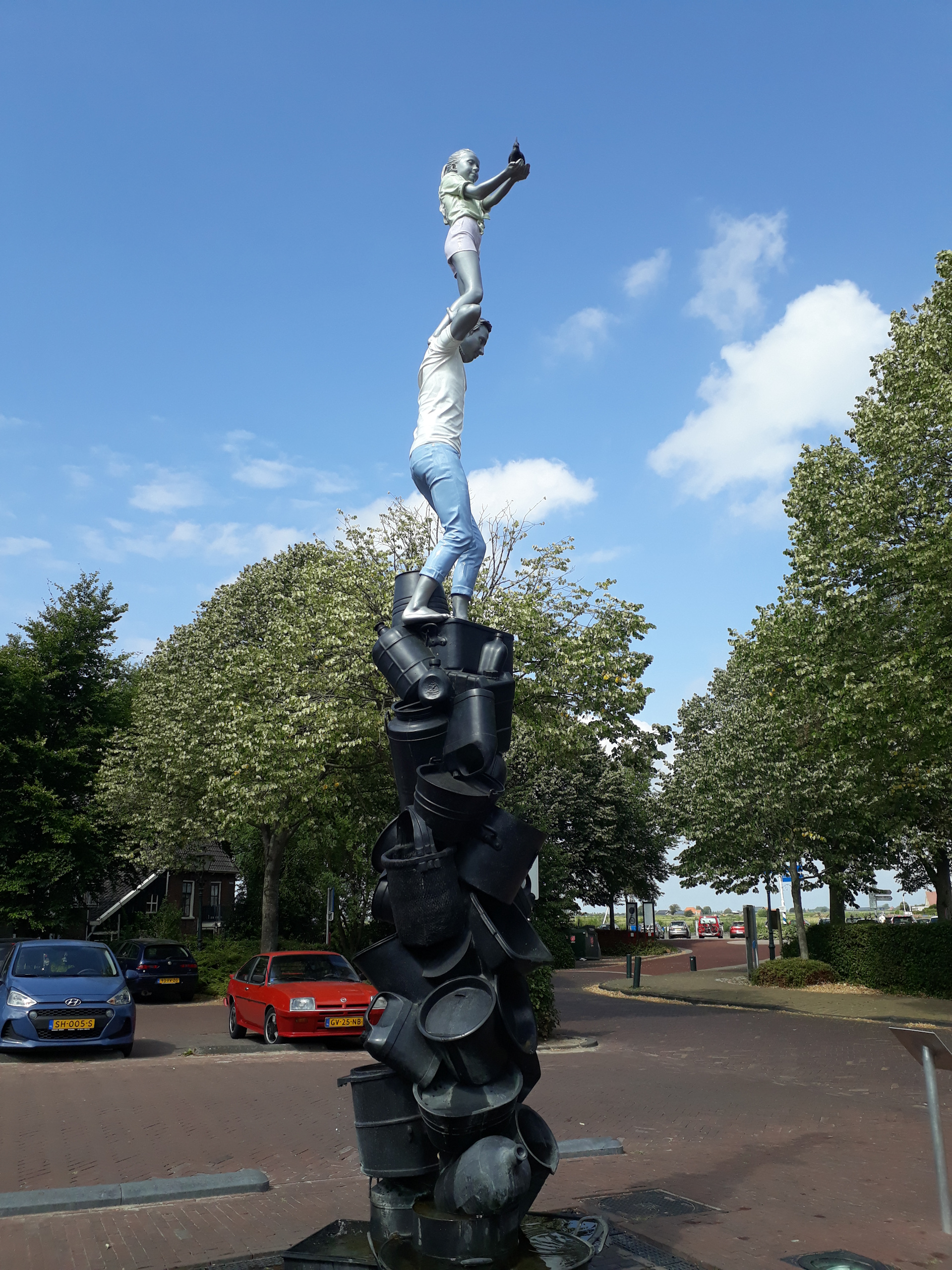 Fountain "Peewit" in Sloten (Friesland) by Lucy & Jorge Orta